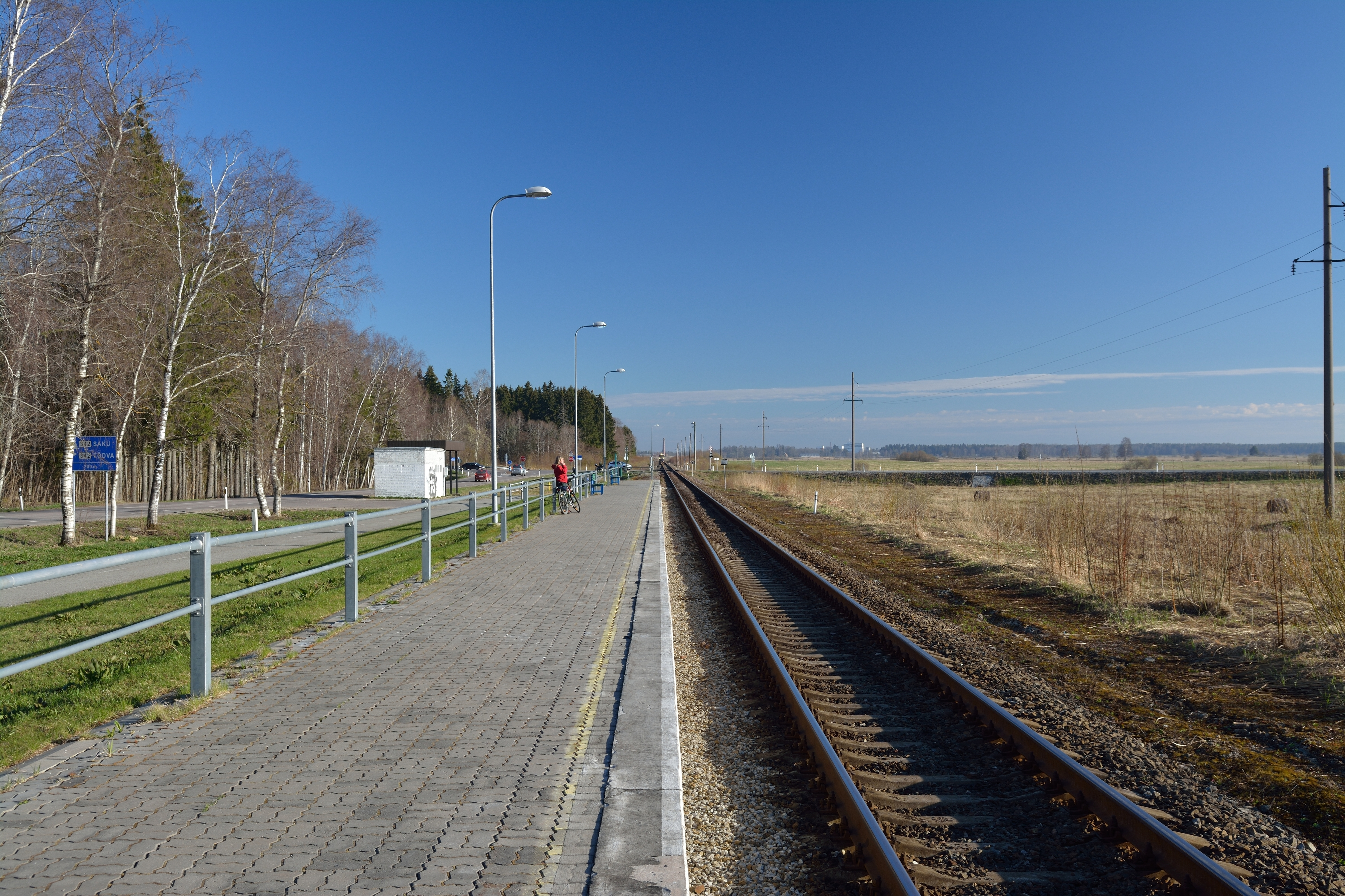 Kasemetsa train stop